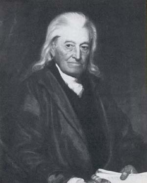 William S. Johnson